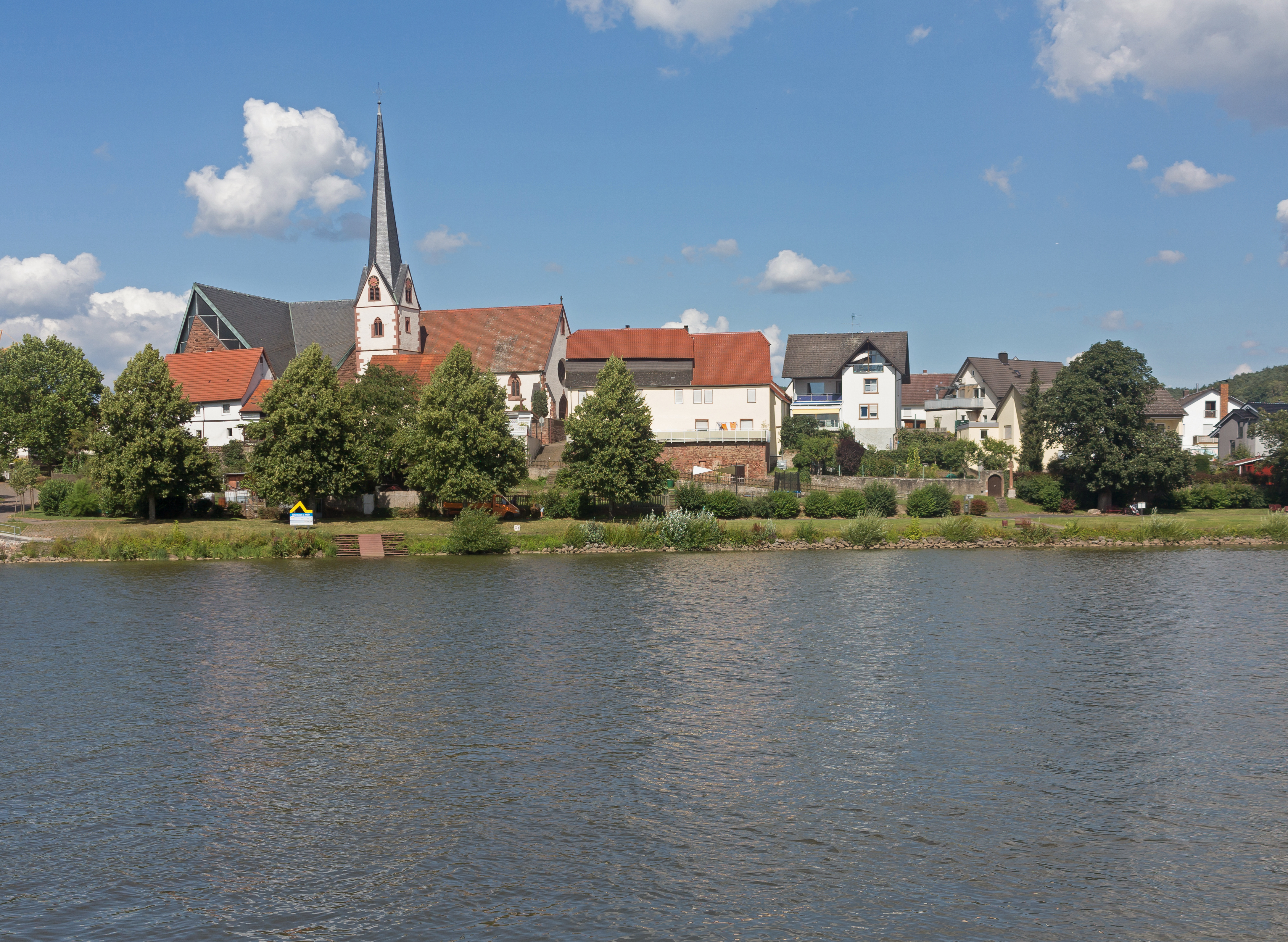 Erlenbach am Main, view to the town from Wörth with church (die katholische Pfarrkirche Sankt Peter und Paul)This is a photograph of an architectural monument.